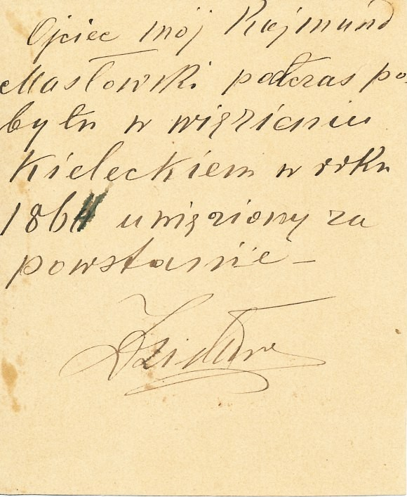 Rajmund Masłowski portrait, drawing, pencil on paper, of 1864, dimensions 98 mm x 120 mm Signature in left: "20/8 1864", signature in right: "Ignacy"